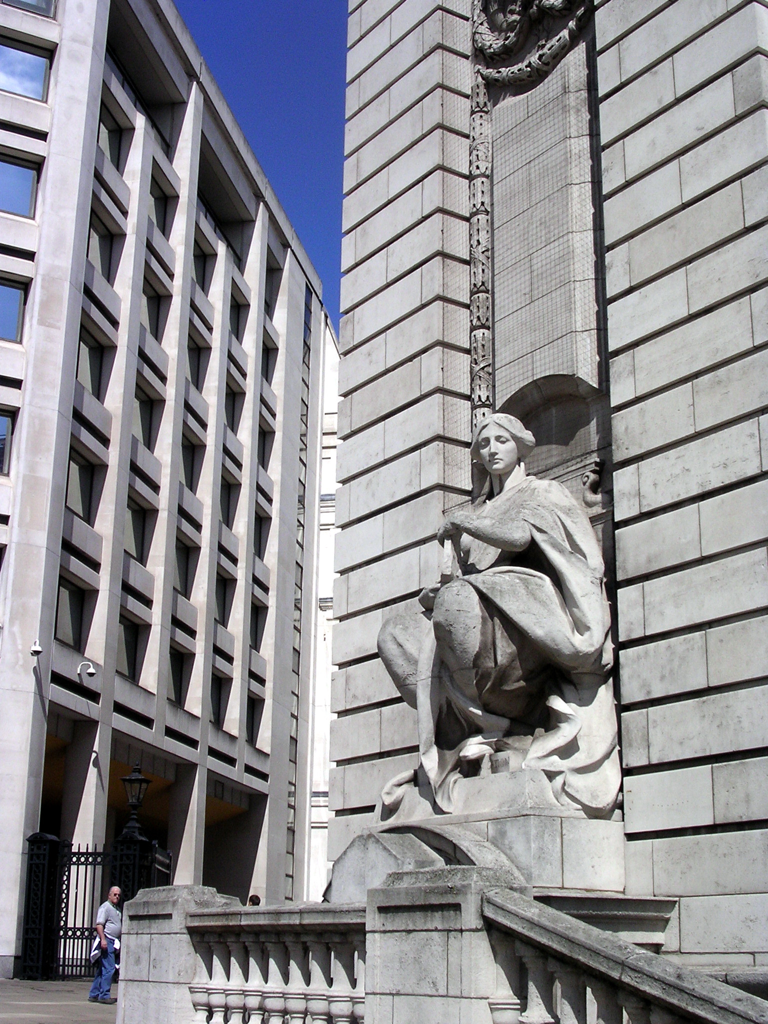 Architectural sculpture, Admiralty Arch, London.